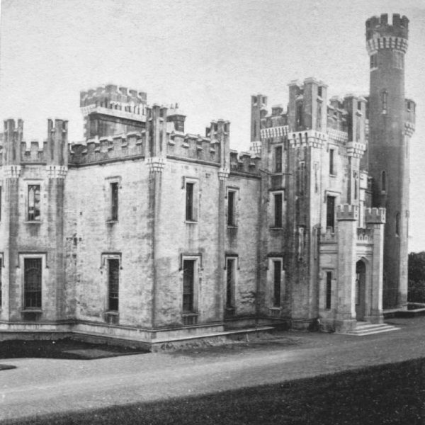 Image from postcard (c. 1900) of Dromore Castle, County Kerry, to illustrate article on Dromore Castle.